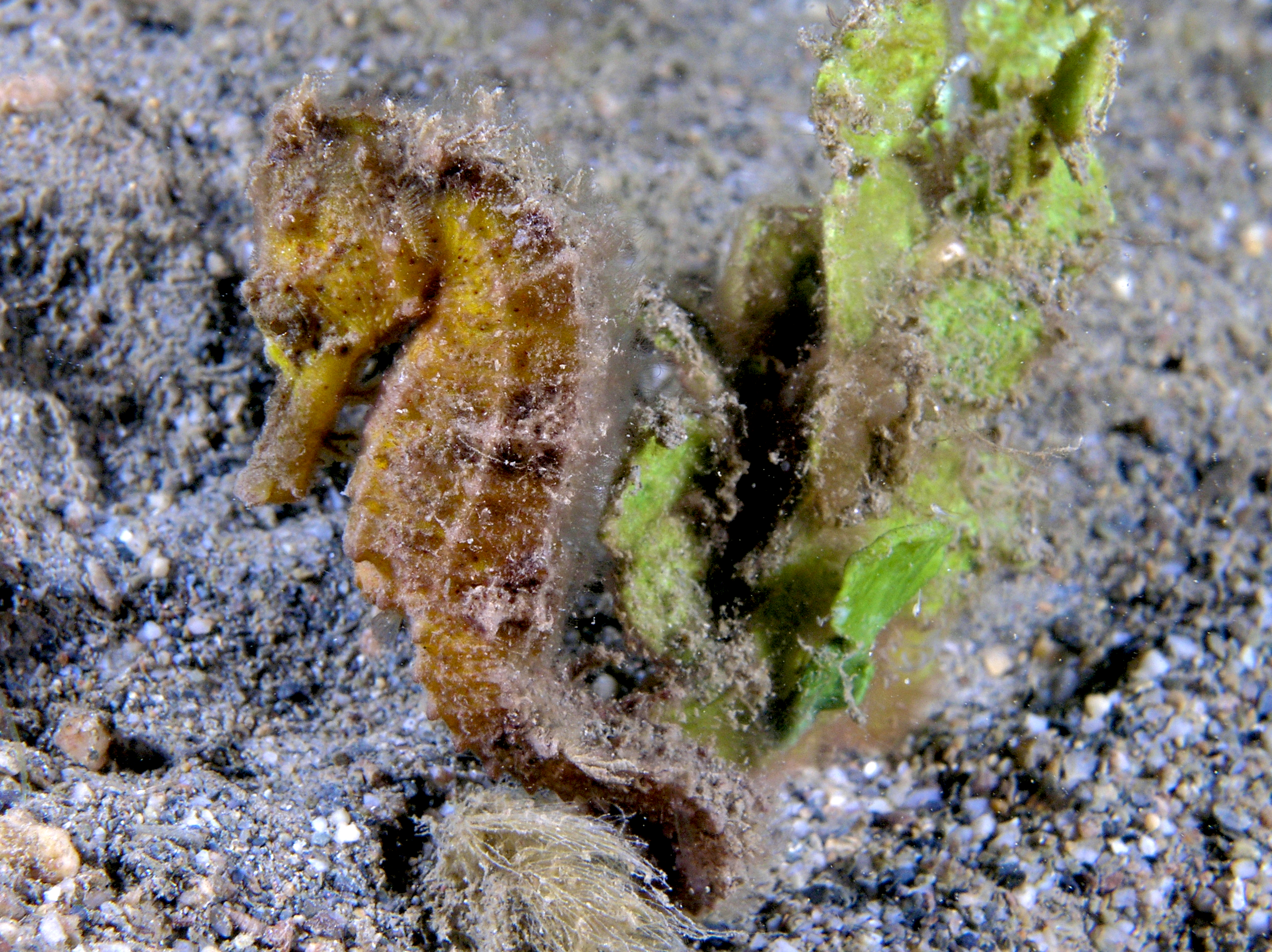 Hippocampus kuda (Yellow estuary seahorse)